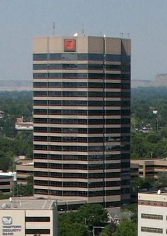 Overlooking downtown of Billings, Montana, USA